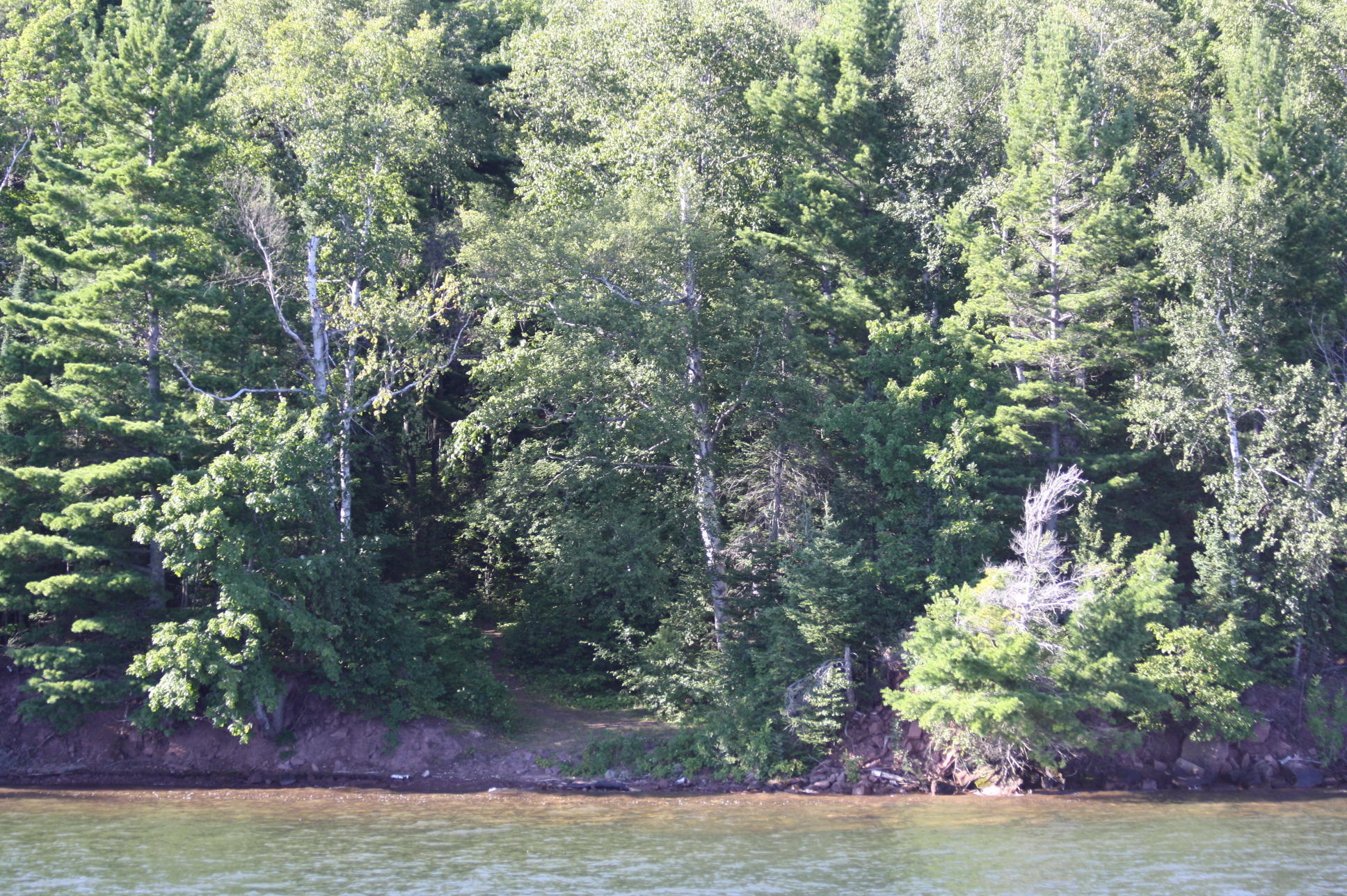 The path used for the Bass Island Brownstone Company Quarry, the last remaining evidence of the quarry.